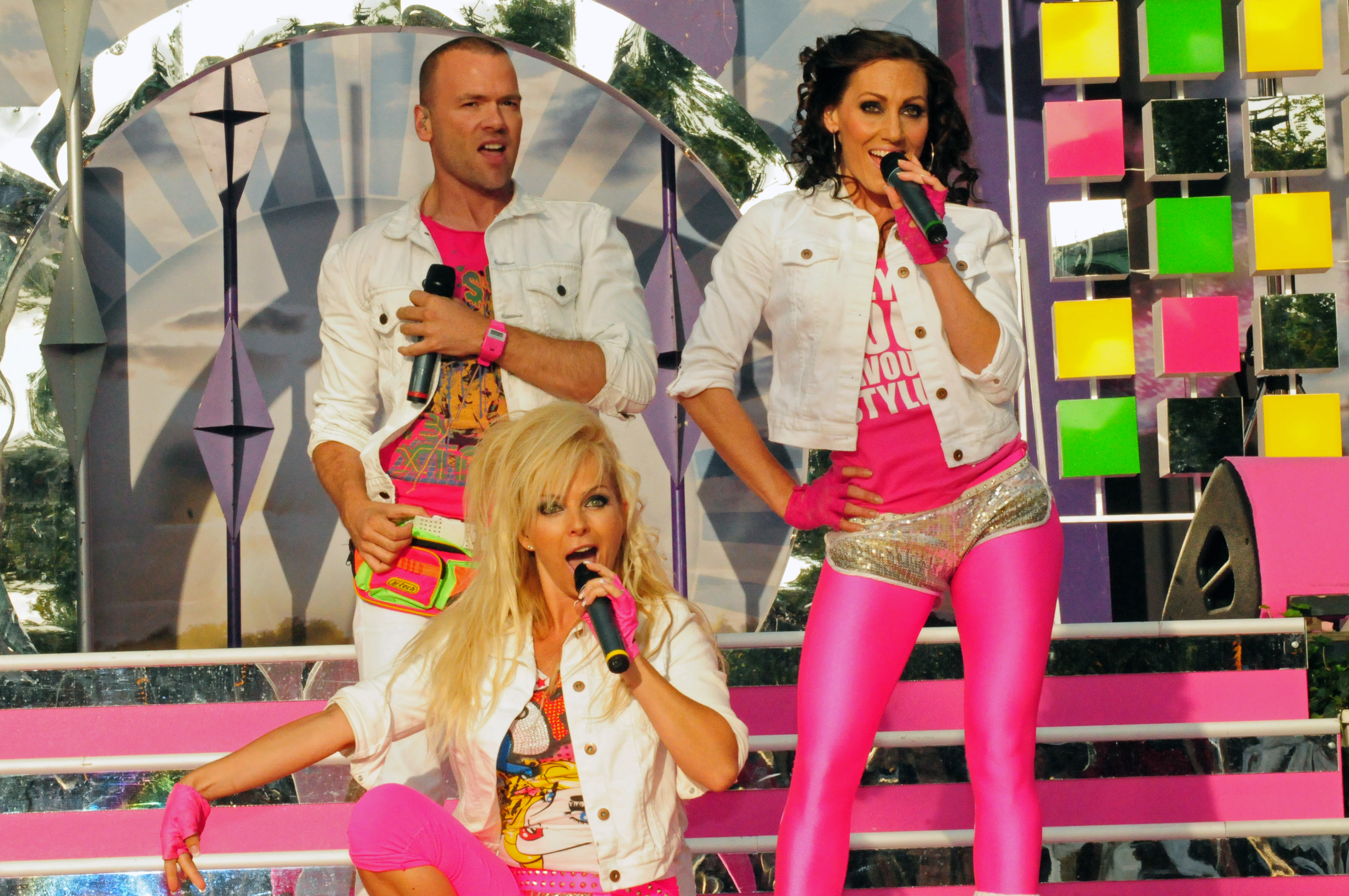 Alcazar at Sommarkrysset 2009